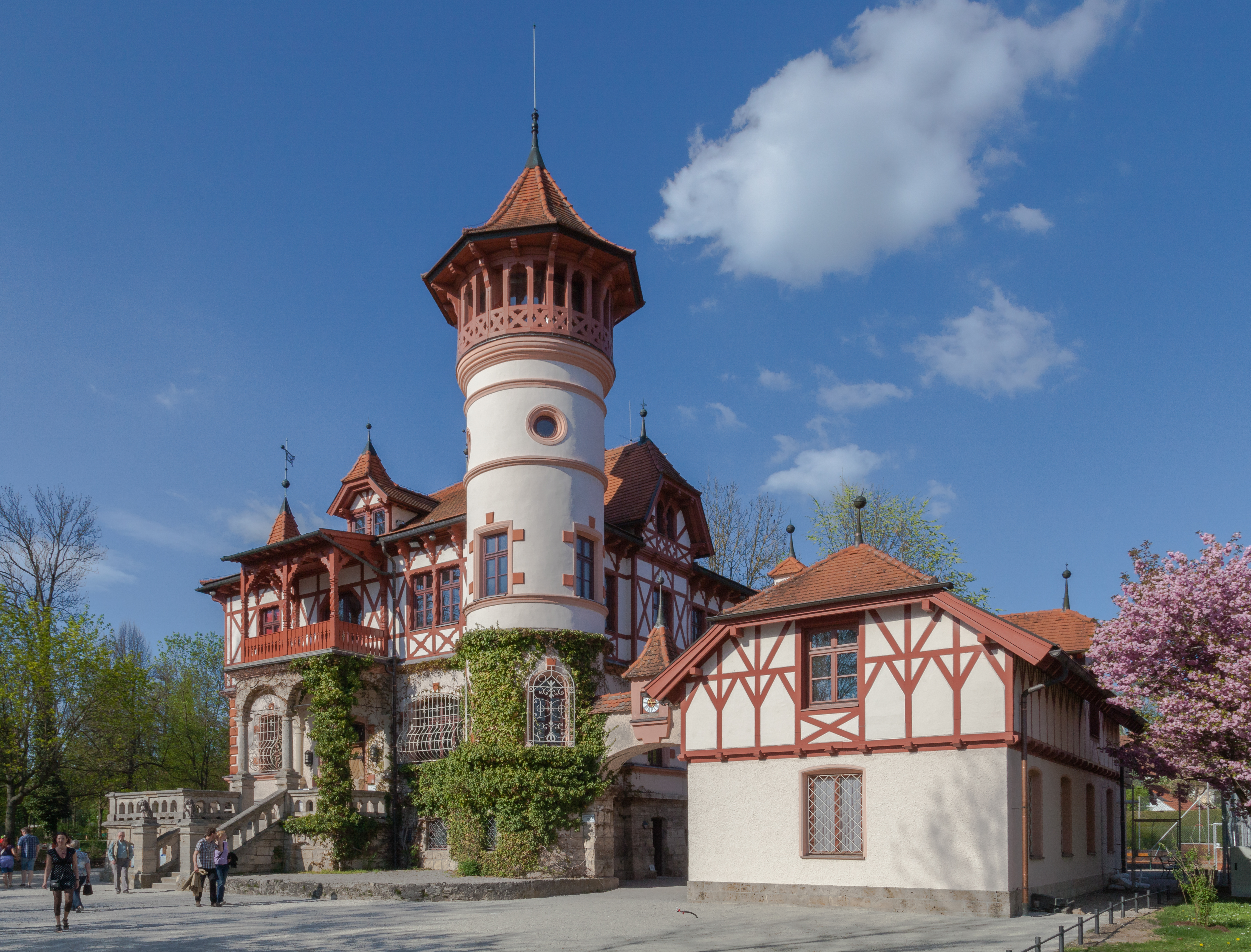 Kurparkschlösschen, Herrsching, Germany